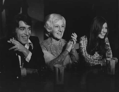 Destino de un capricho-película argentina de 1972